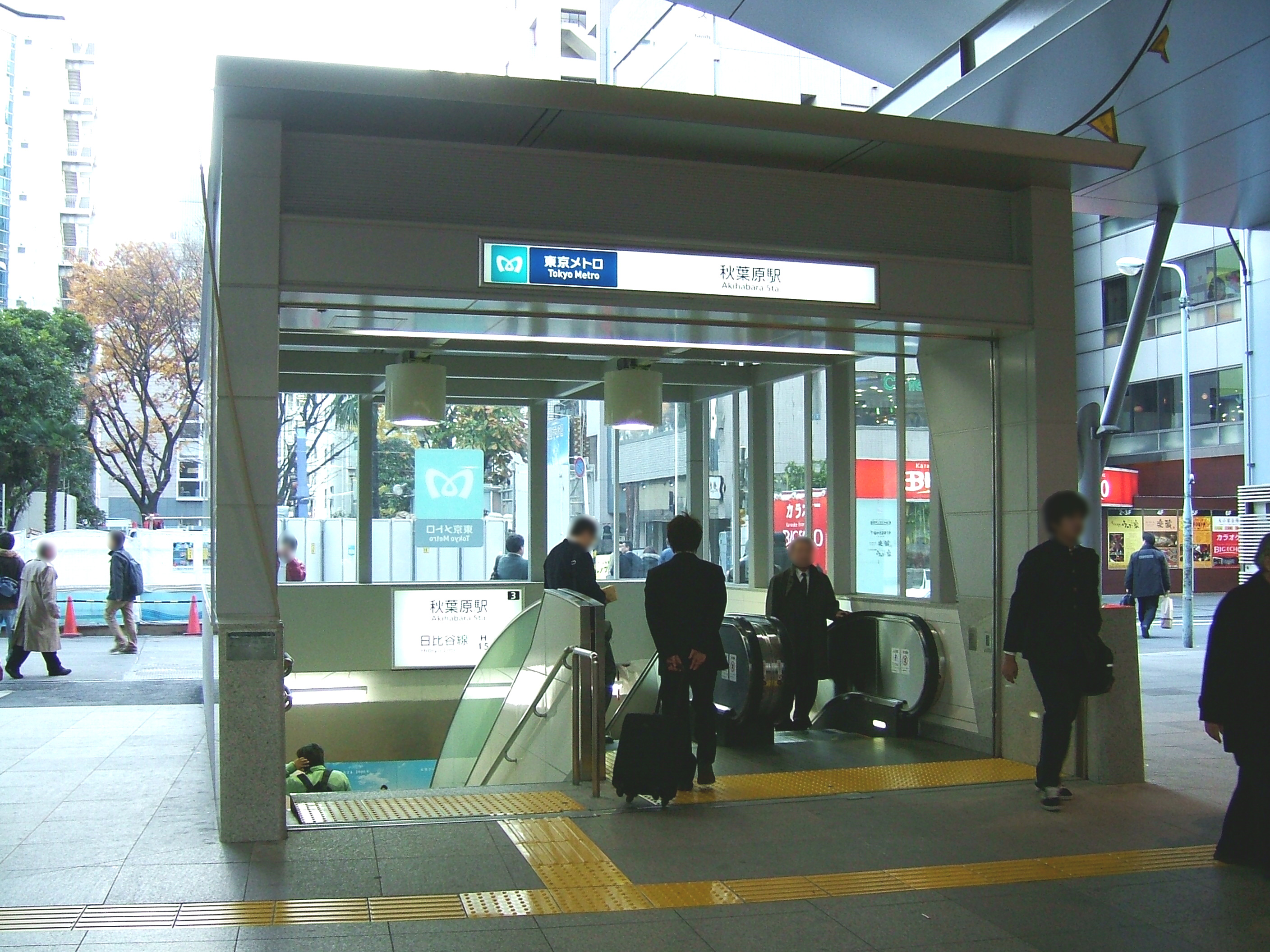 The No.3 entrance to Akihabara Station on the Tokyo Metro Hibiya Line